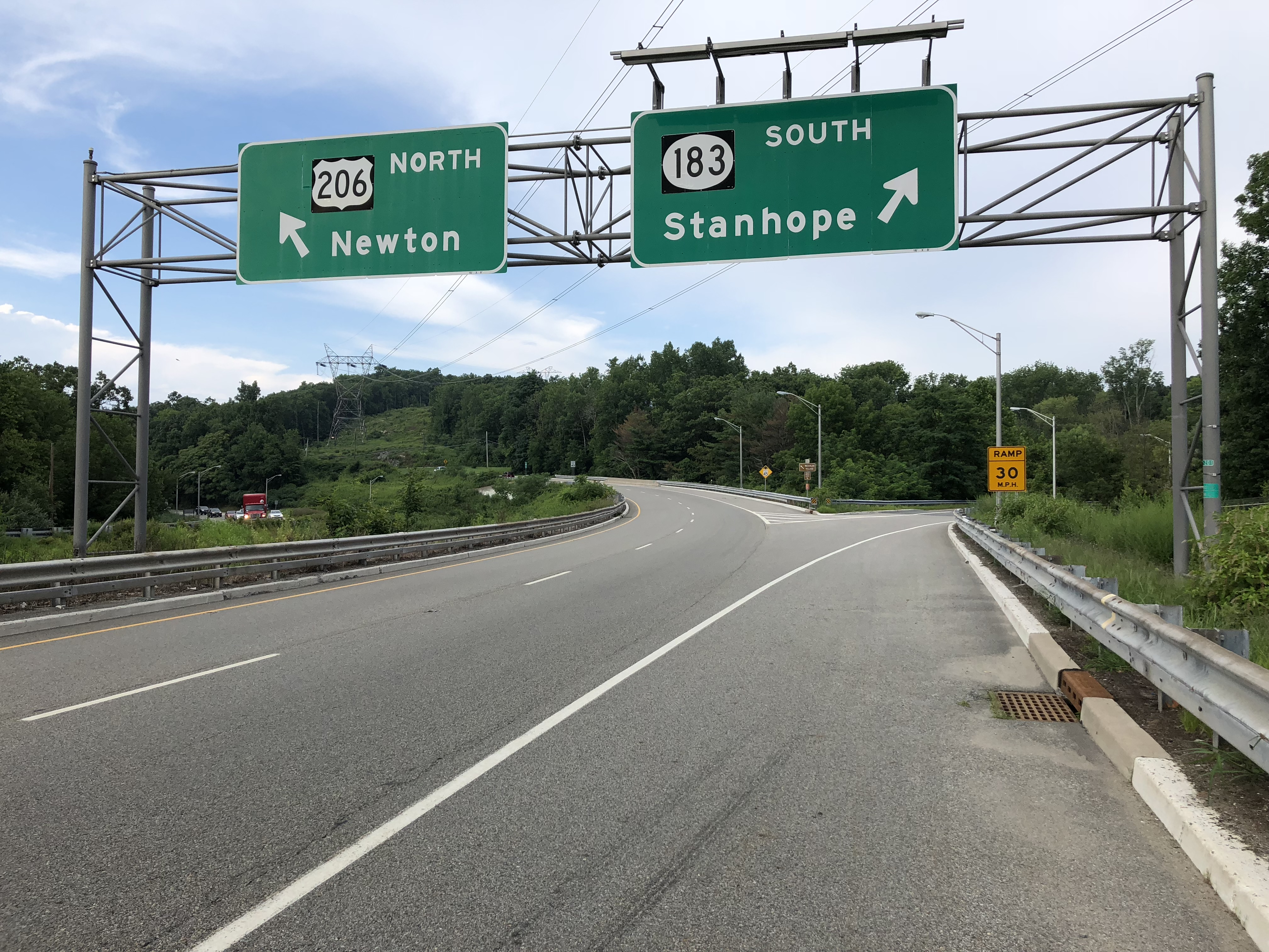 View north along U.S. Route 206 (Netcong Bypass) at the exit for New Jersey State Route 183 SOUTH (Stanhope) in Stanhope, Sussex County, New Jersey